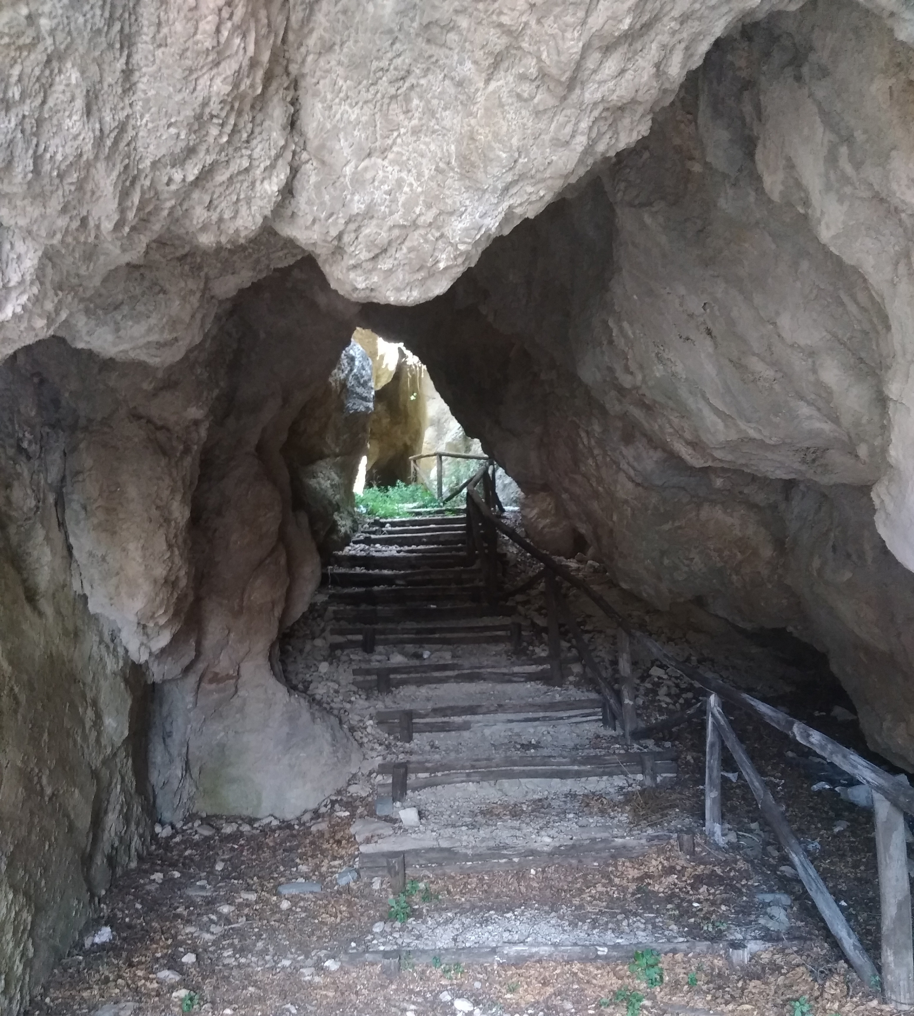 Cave in the mountain pass